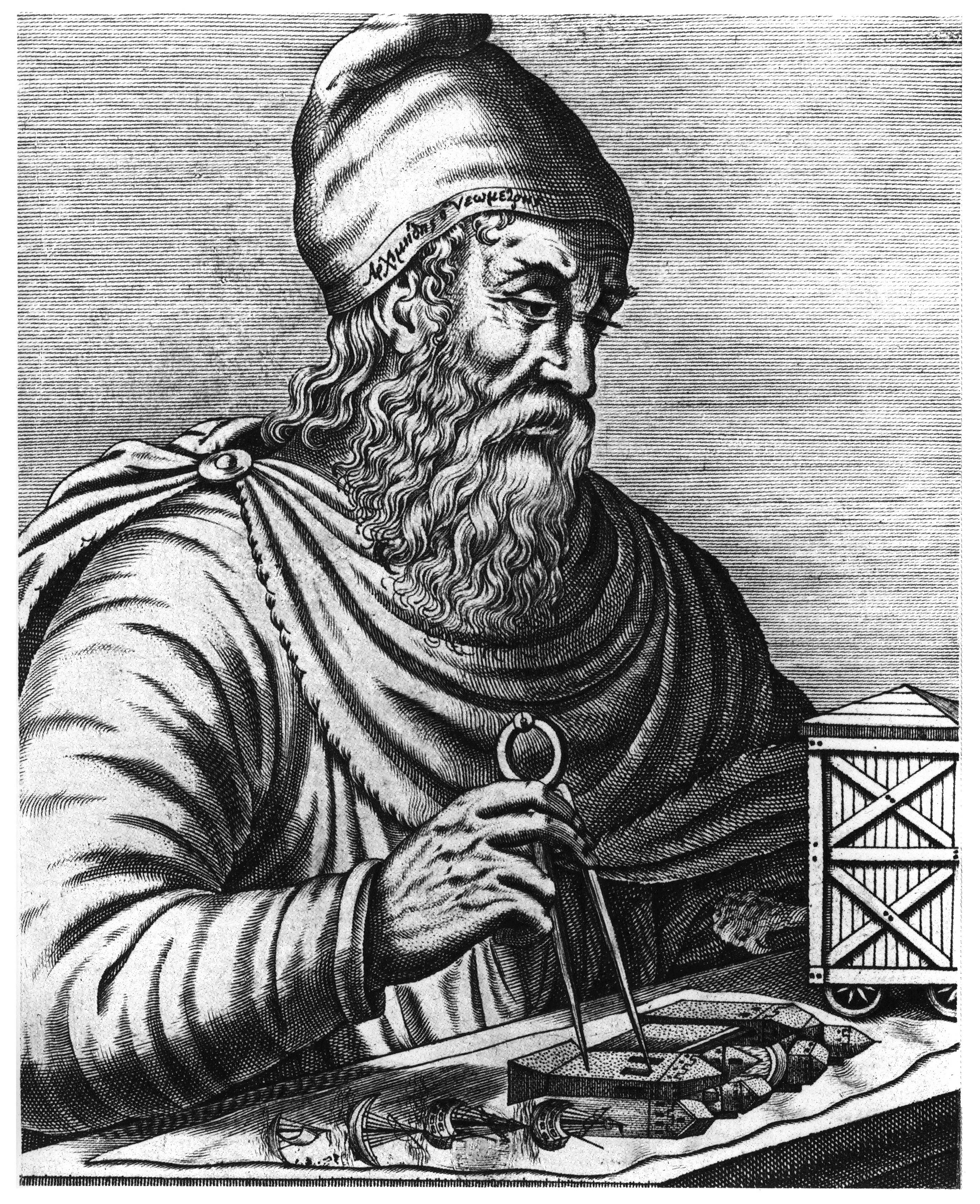 Archimedes. Engraving from the book Les vrais pourtraits et vies des hommes illustres grecz, latins et payens (1586).